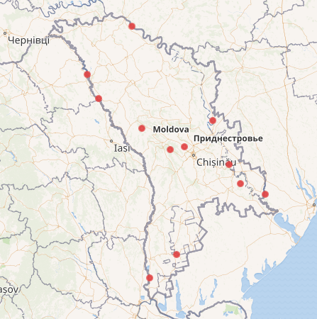 Important Bird Areas of Moldova